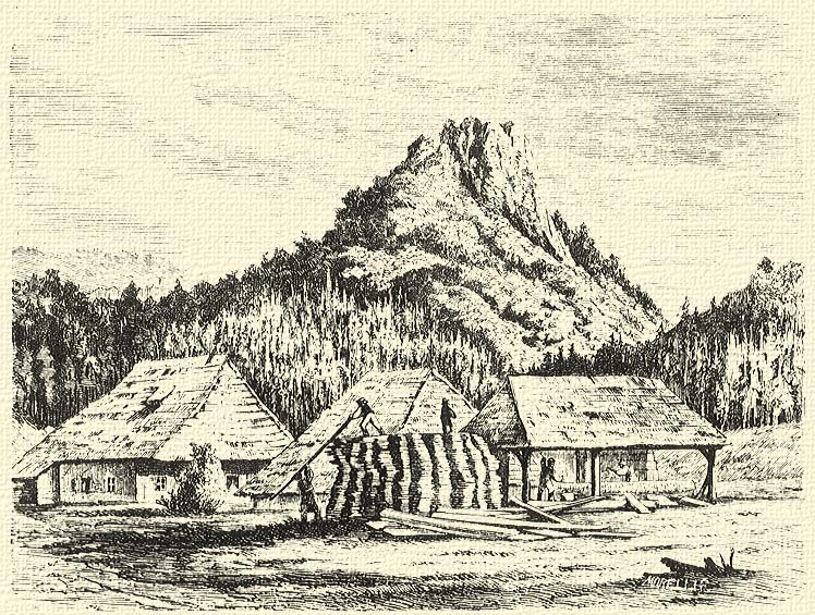 Alsó-Sólyomkő déloldali látképe